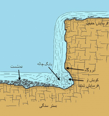 Details of waterfall and plunge pool described in Persian language